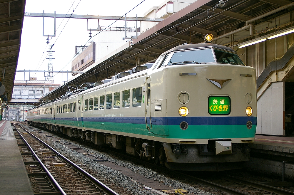 JR East 485 series EMU on a Kubikino rapid service at Niigata Station